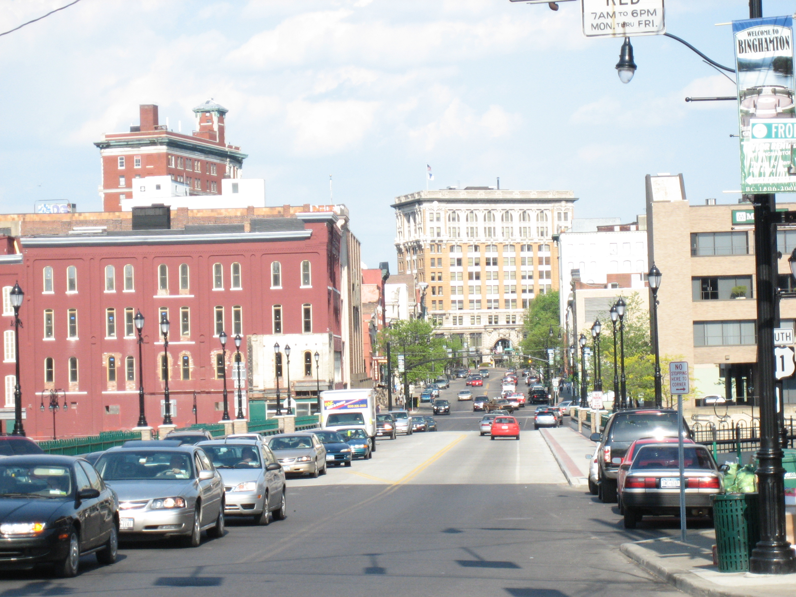 Looking east from Main Street at Front Street in the Westside of Binghamton towards the Court Street Bridge and Downtown Binghamton. The river crossed here is the Chenango.